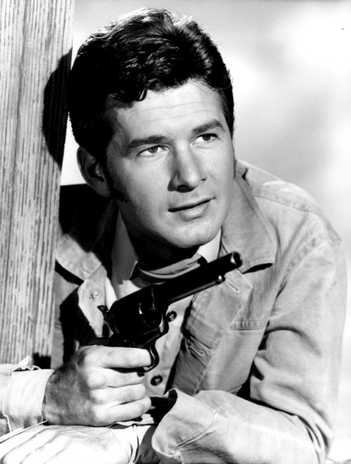 Photo of Gary Clarke as Steve Hill from the television program The Virginian.